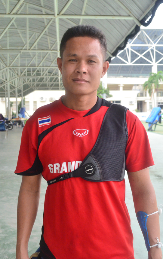 Denchai Thepna